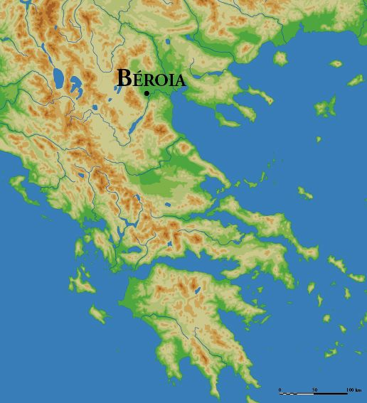 Beroia/Veria location in Greece. Drawing by Marsyas.